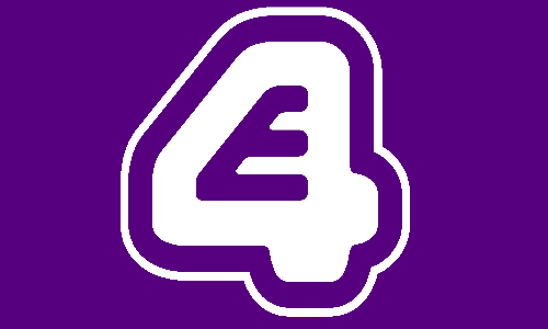 E4 Entertainment